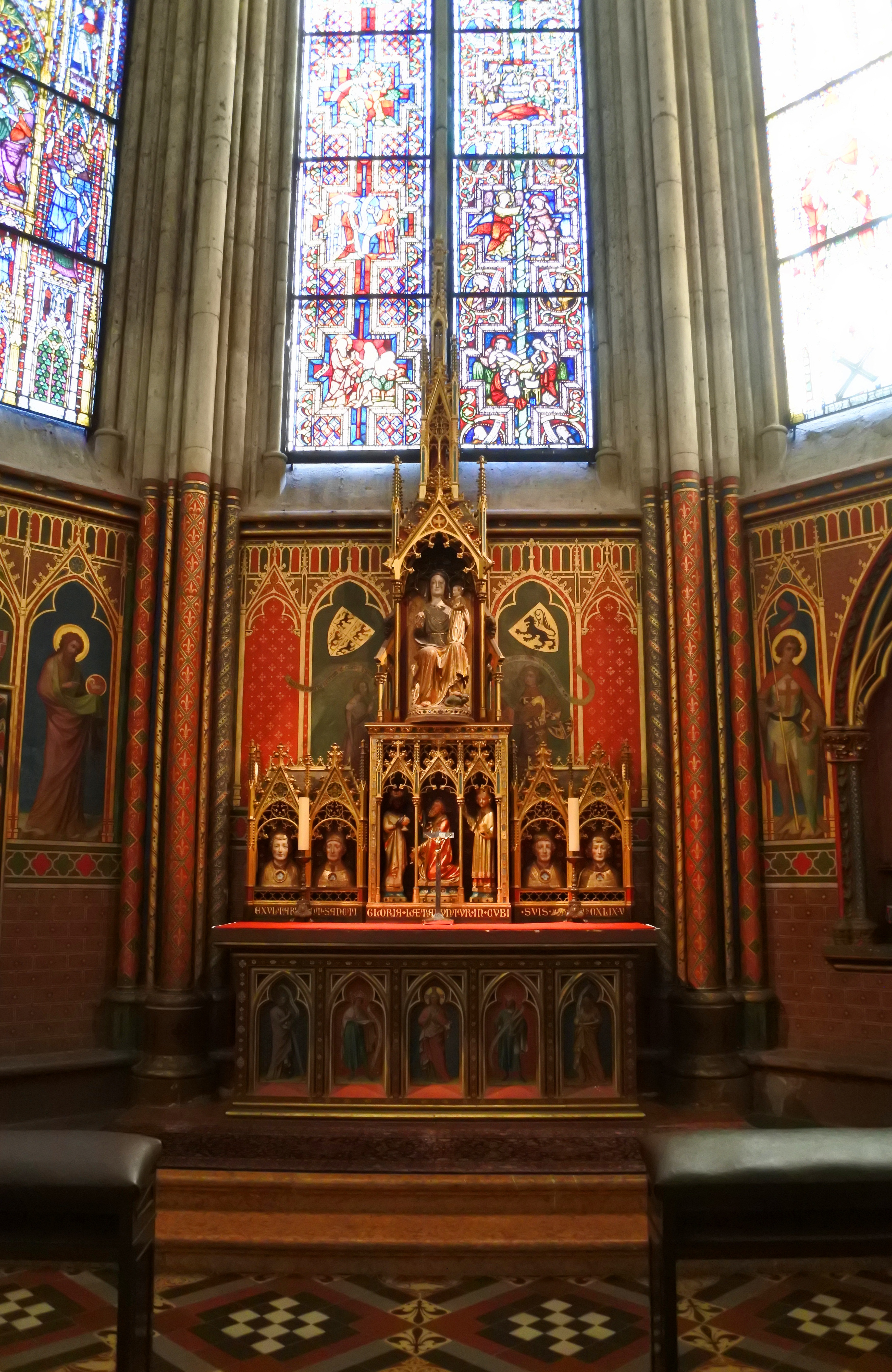 Chapel of the Magi, where the Shrine of the Three Kings was kept from 1322 till 1948.